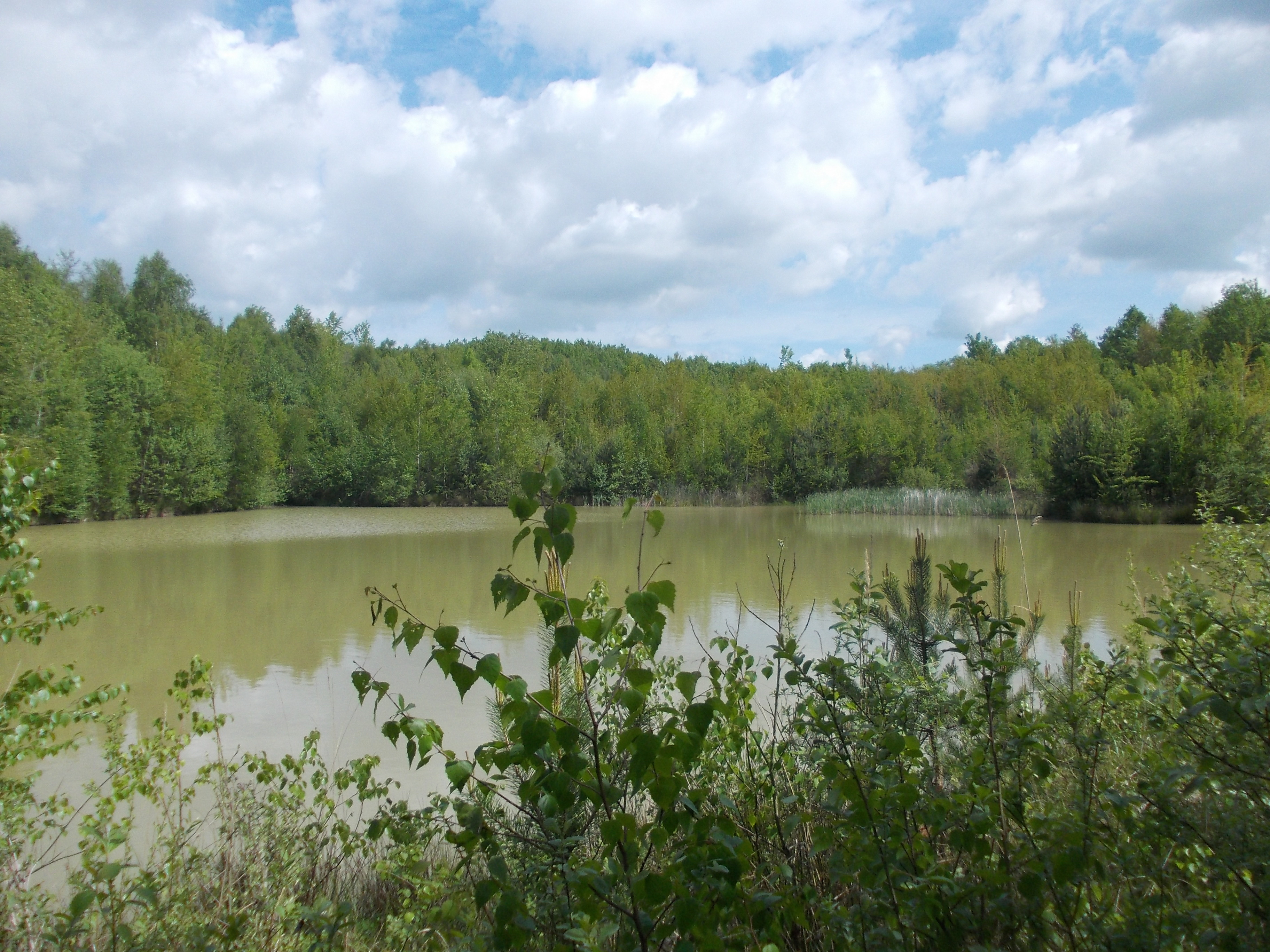 Pond in the Leina forest nature reserve (Altenburger Land district, Thuringia)